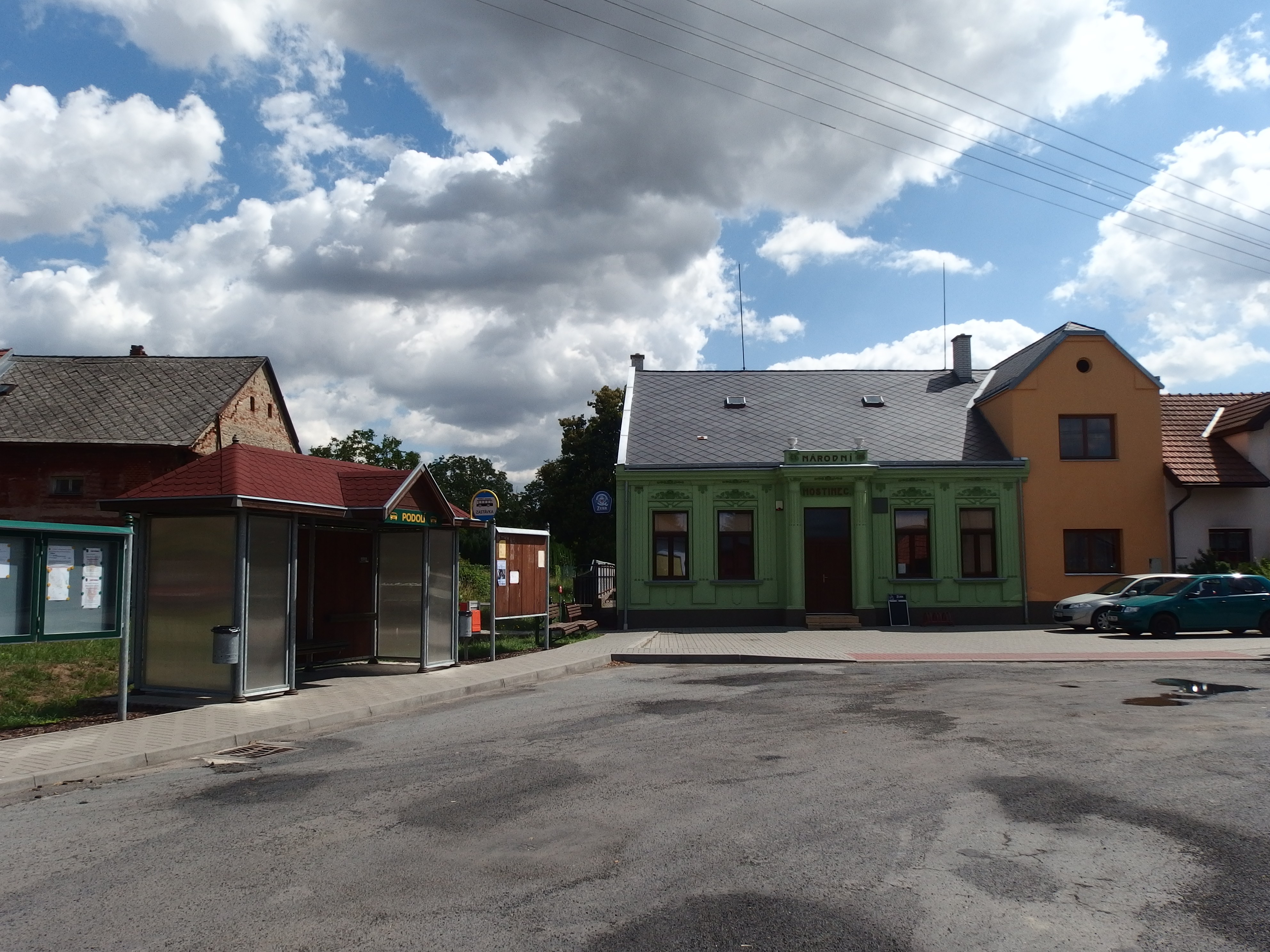 Podolí, Přerov District, Czech Republic.